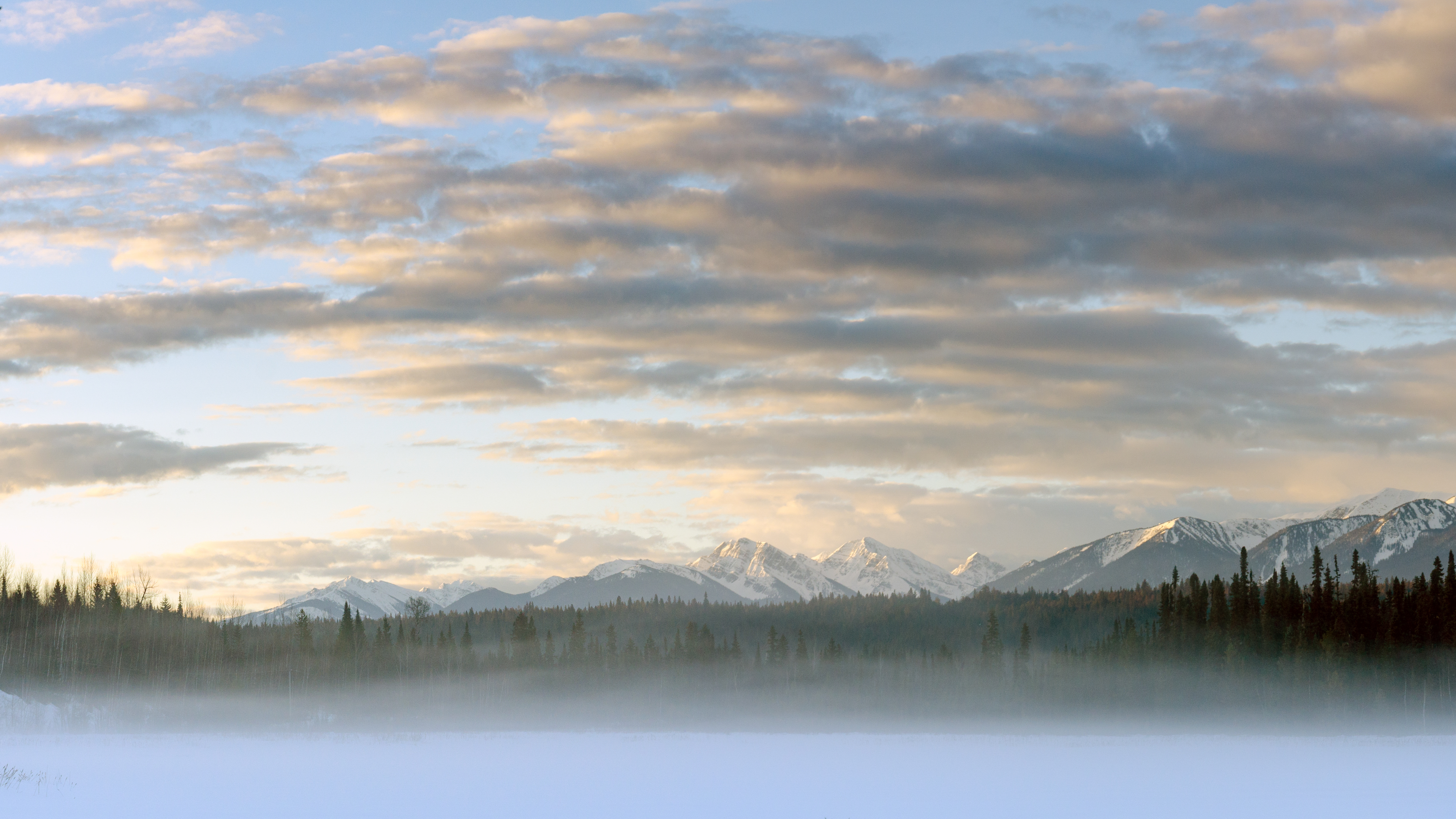 Nameless lake, Dome Creek area, Canada